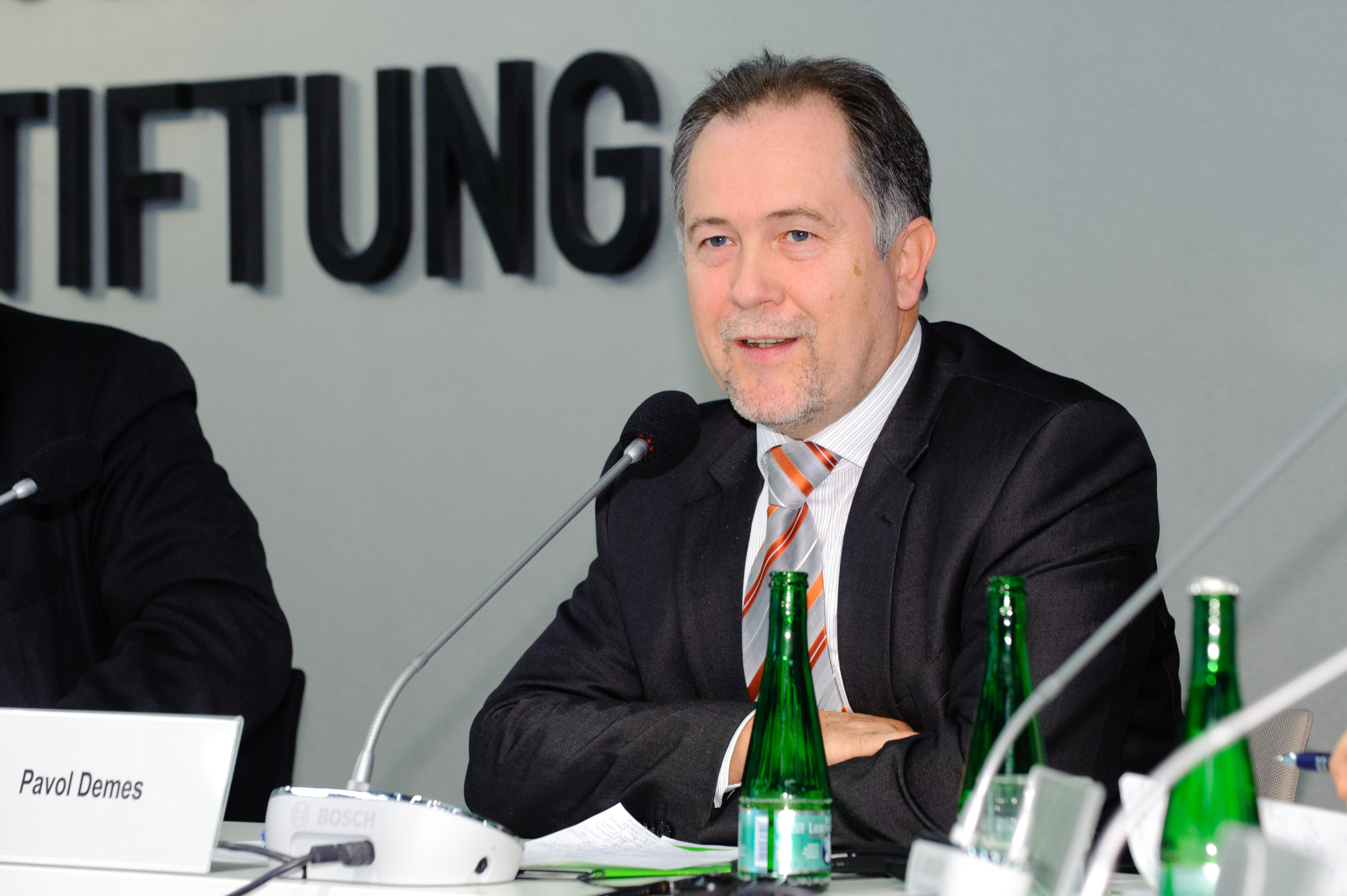 Pavol Demeš (Senior Fellow, Zentral- und Osteuropa, German Marshall Fund of the United States, Bratislava) Foto: CC-BY-SA Stephan Röhl /